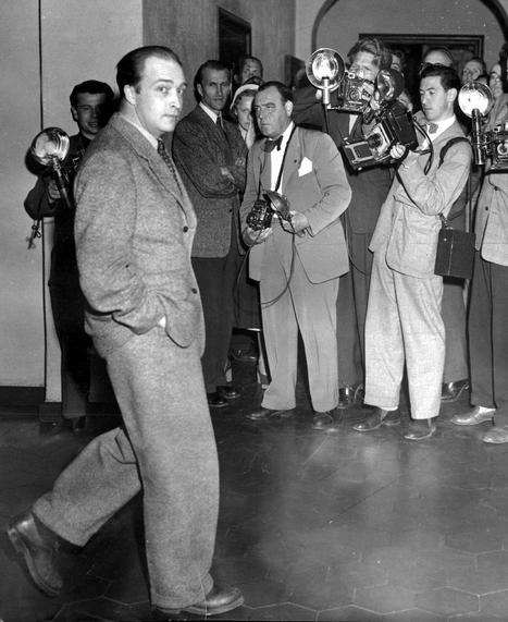 The accused Soviet spy Fritiof Enbom in front of press photographers at the trial in July 1952.